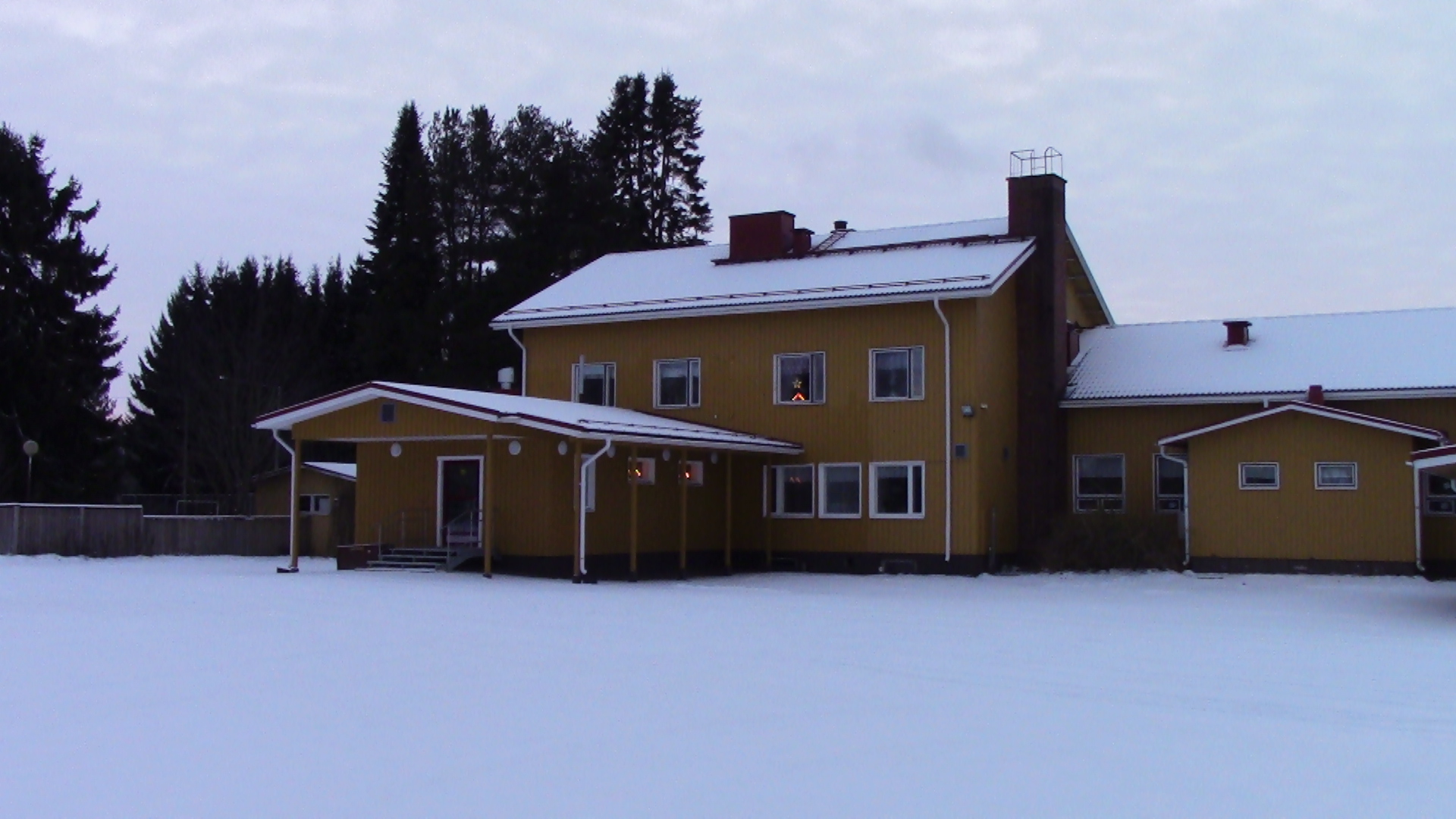 Older building of Lallin koulu elementary school at Kankaanpää village in Säkylä, Finland.